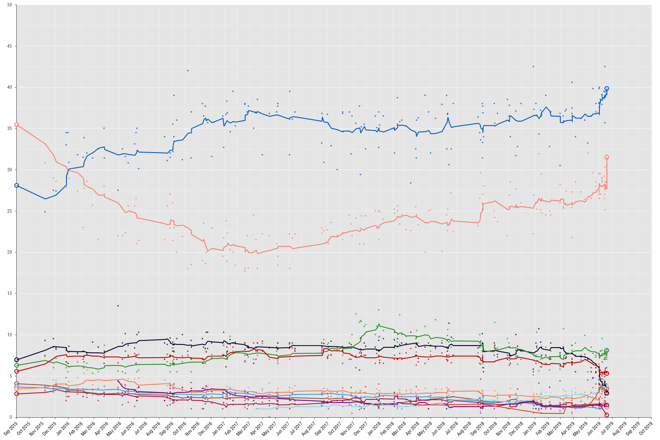 10-point average trend line of poll results from 20 September 2015 to 7 July 2019, with each line corresponding to a political party. Syriza ND XA PASOK/DISI/KINAL KKE Potami ANEL EK LAE PE EL MeRA25